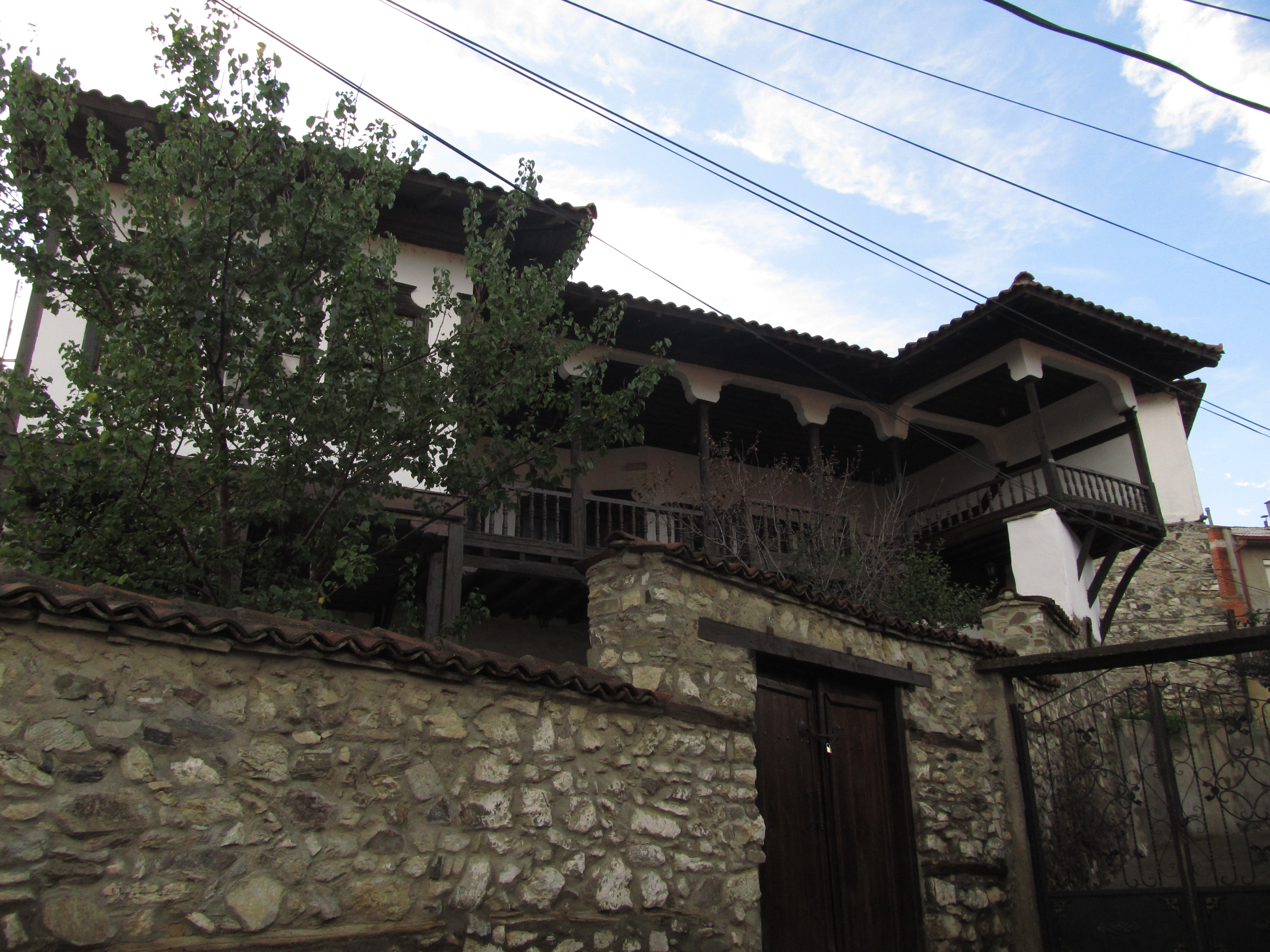 The House of Vasil Glavinov in Veles (str. 9 noemvri, 28)